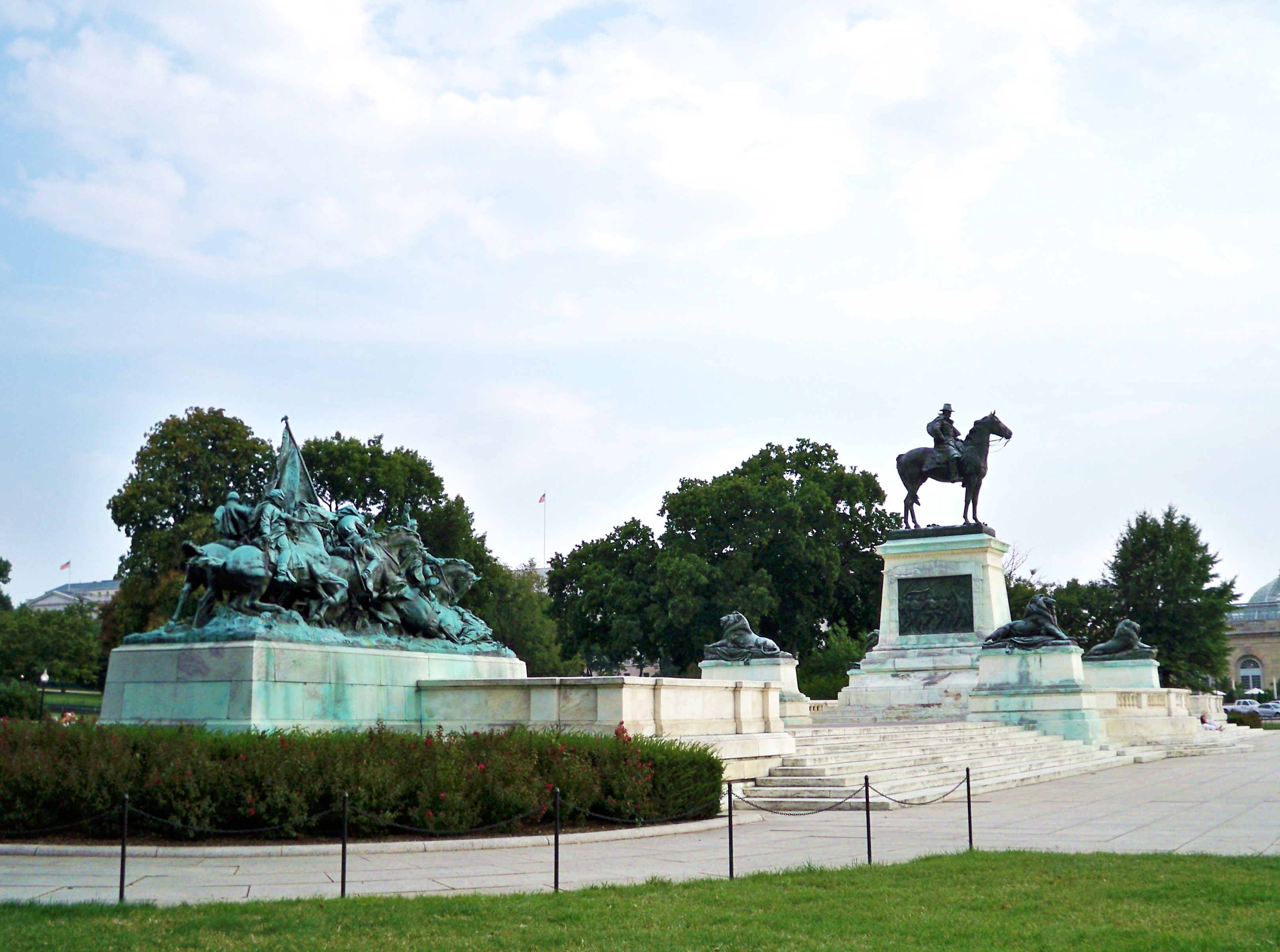 Memorial to President Grant in front of the US Capitol.